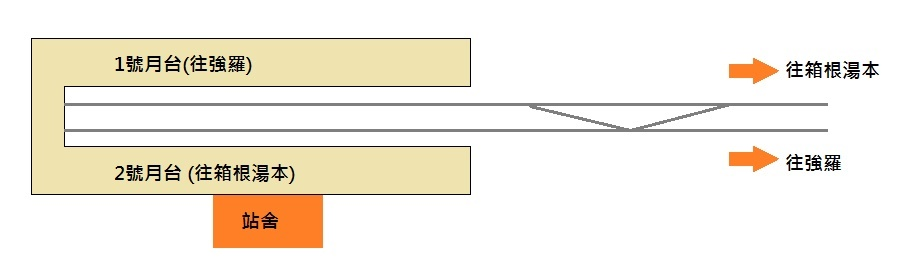 The floor plan of Ōhiradai Station, Hakone Tozan Line